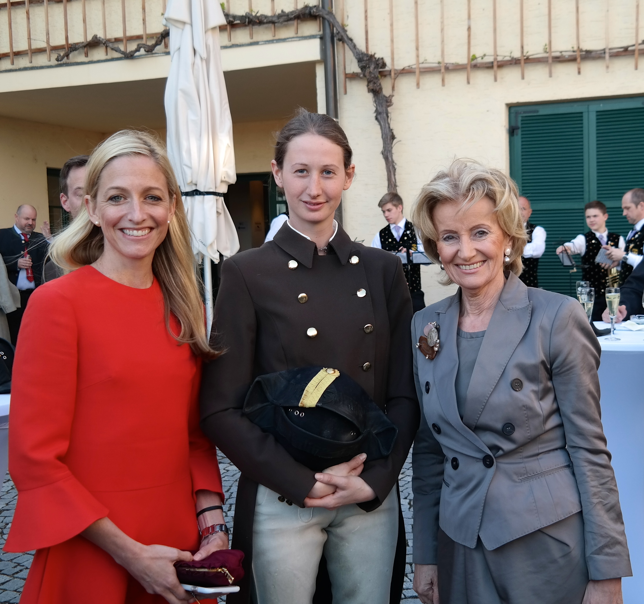 Ambassador Wesner in Melk and Krems Ambassador Alexa Wesner, Hannah Zeitlhofer and Elisabeth Gürtler